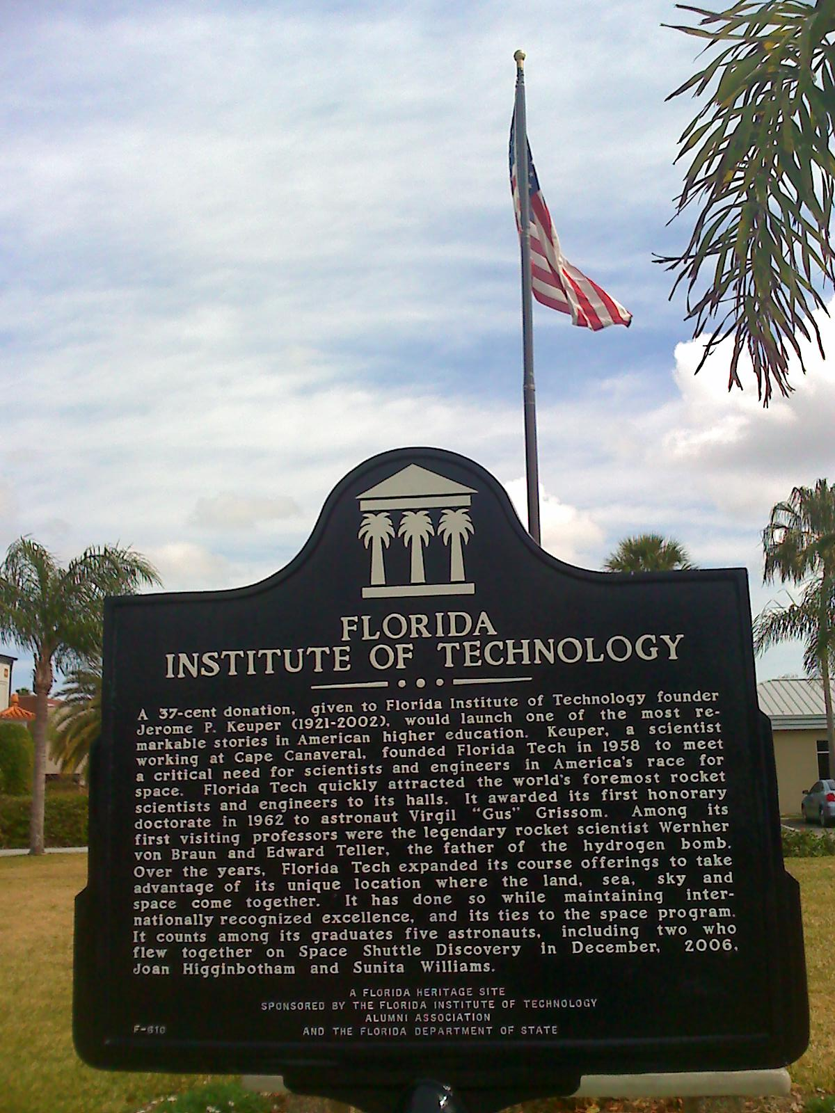 Florida Historic Registry placard for Florida Institute of Technology